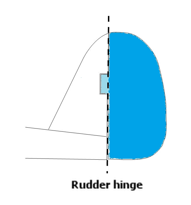 Inset balanced aircraft rudder; balance surface in pale blue